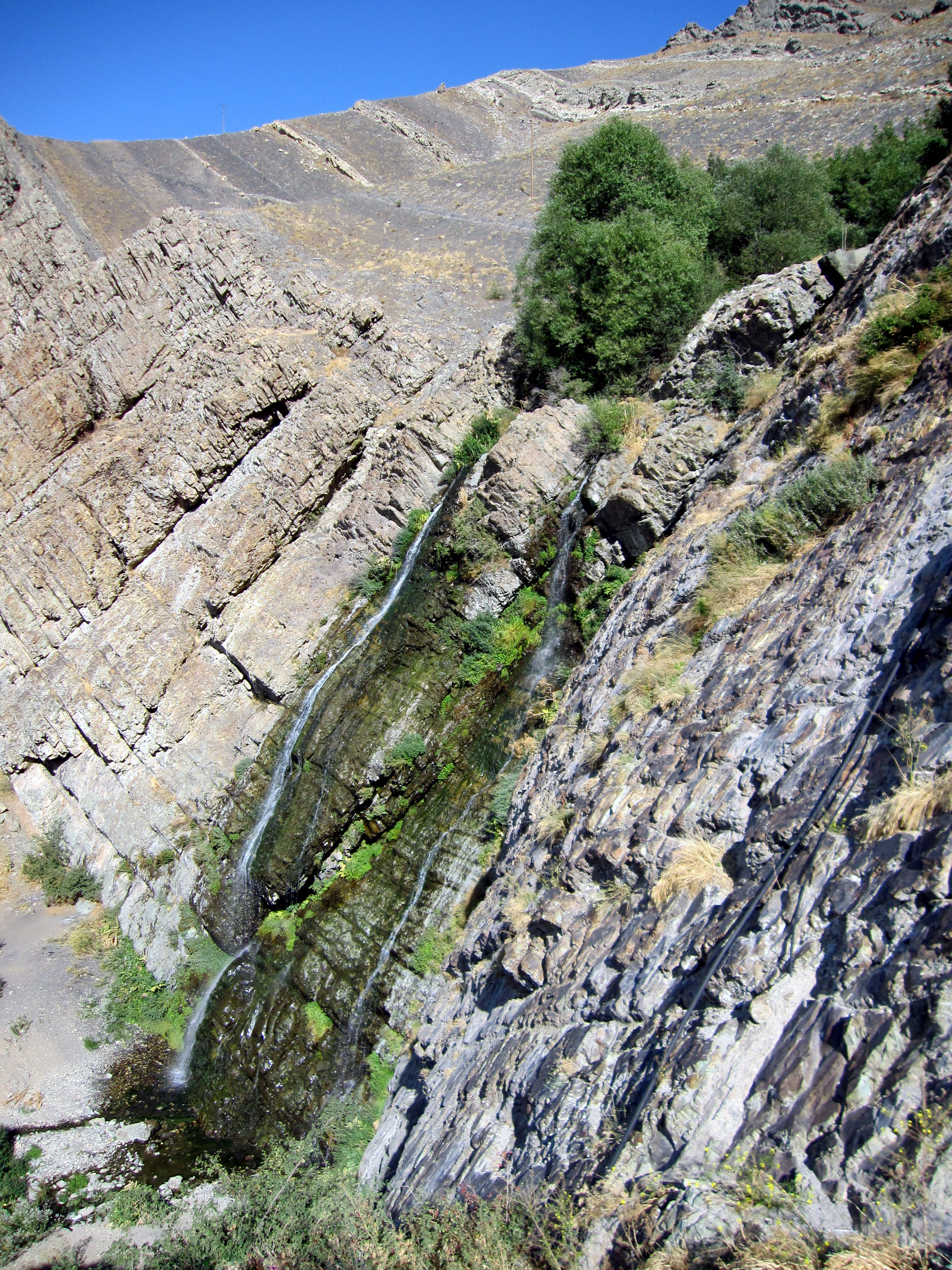 Tehran - Darband - Shirpala - Abshar Dogholou (Double Waterfall)